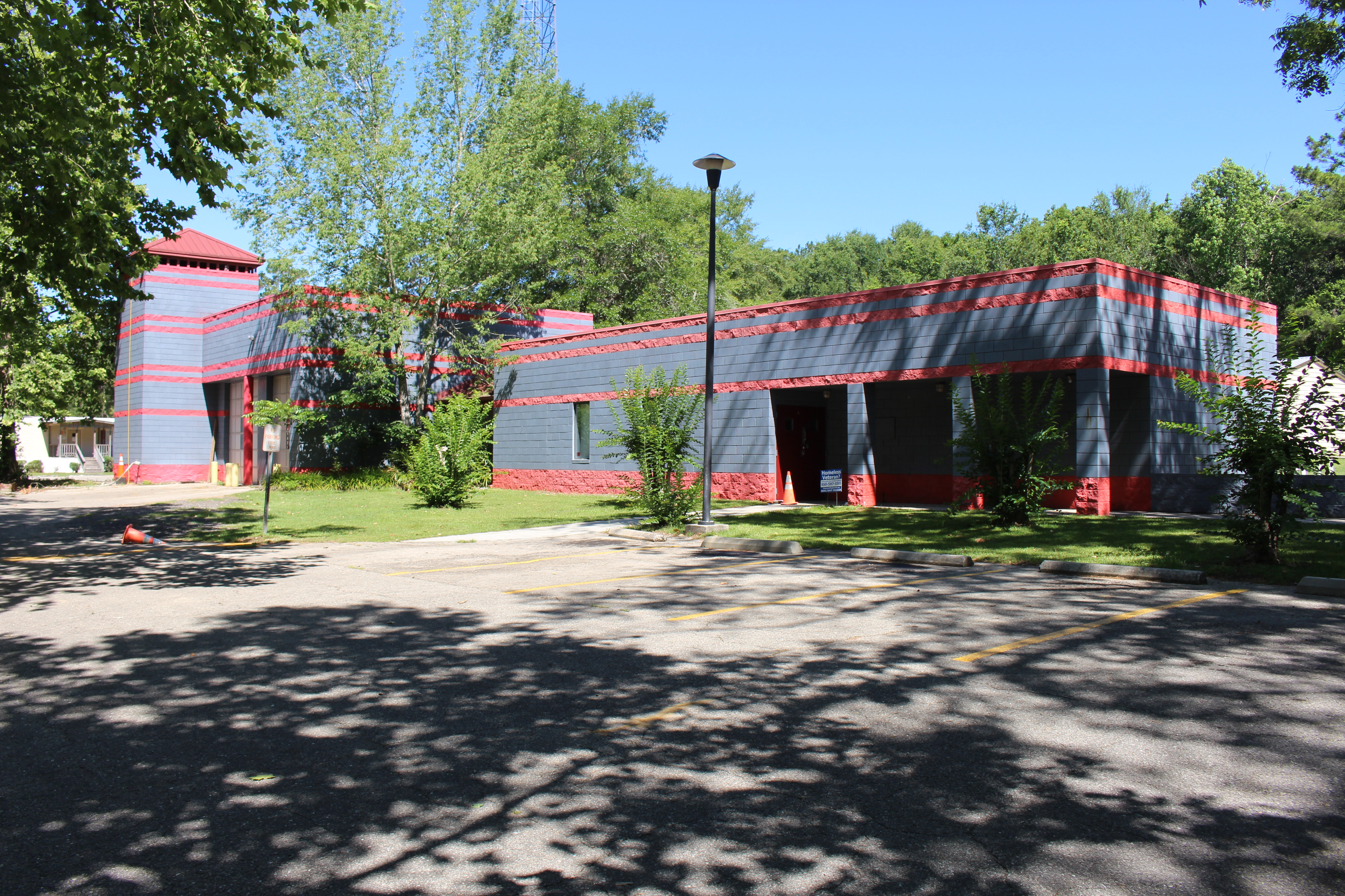 Midway Volunteer Fire Station, Midway, Gadsden County, Florida